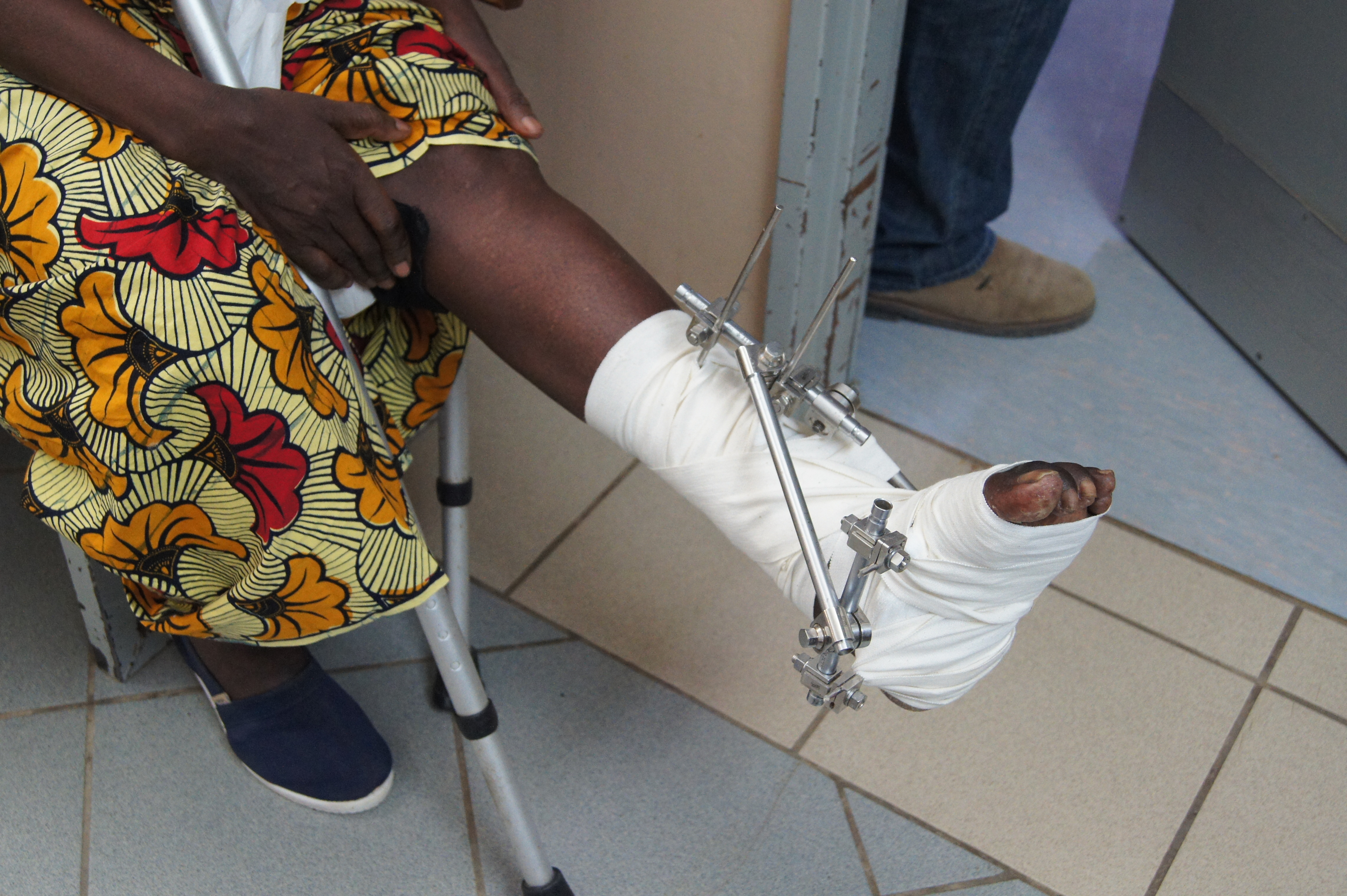 Patient with external fixator in Angola This is an image with the theme "Africa on the Move or Transport" from: Angola